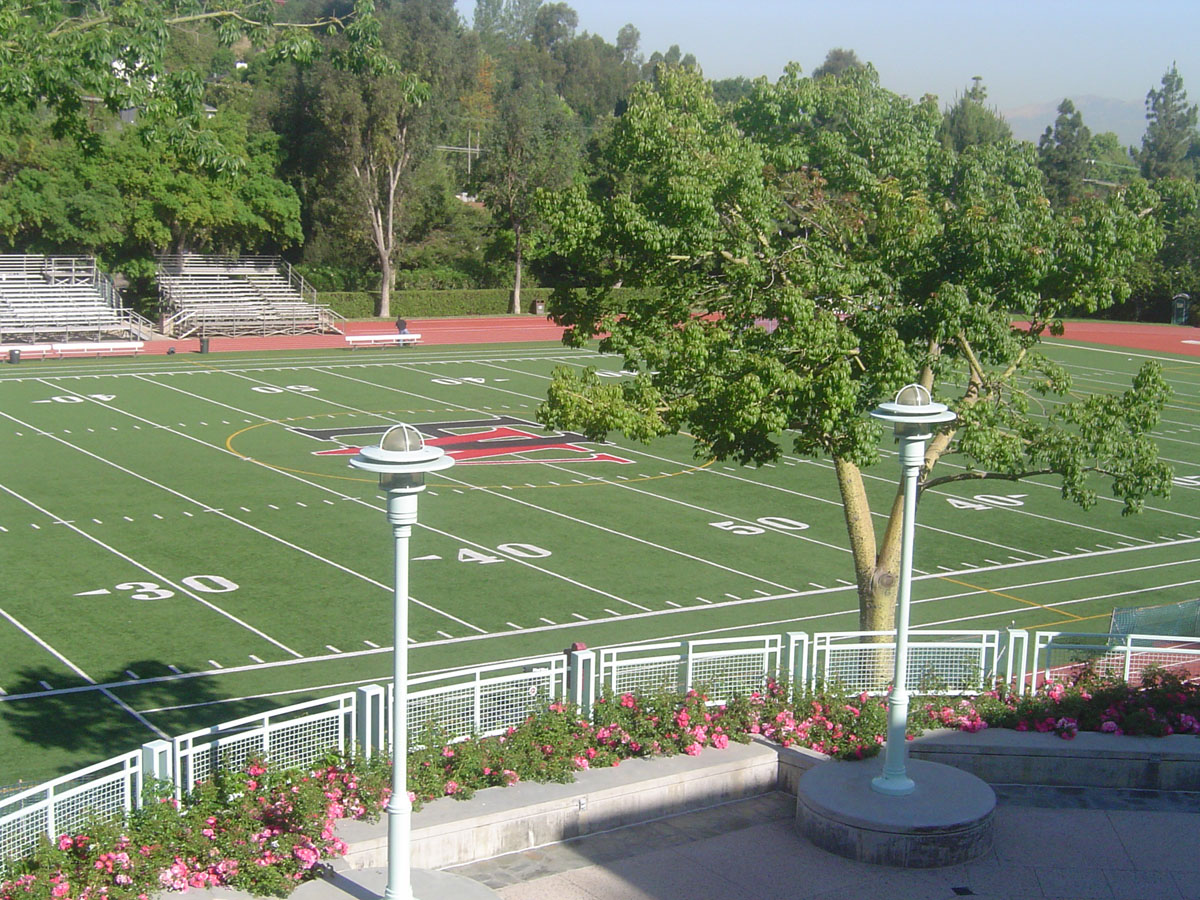 Ted Slavin Field, Upper School - Shot sometime in May 2006.